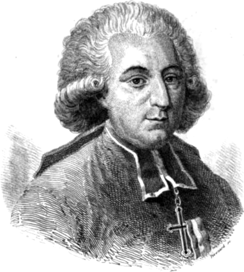 Claude Fauchet, French Revolutionary Priest.